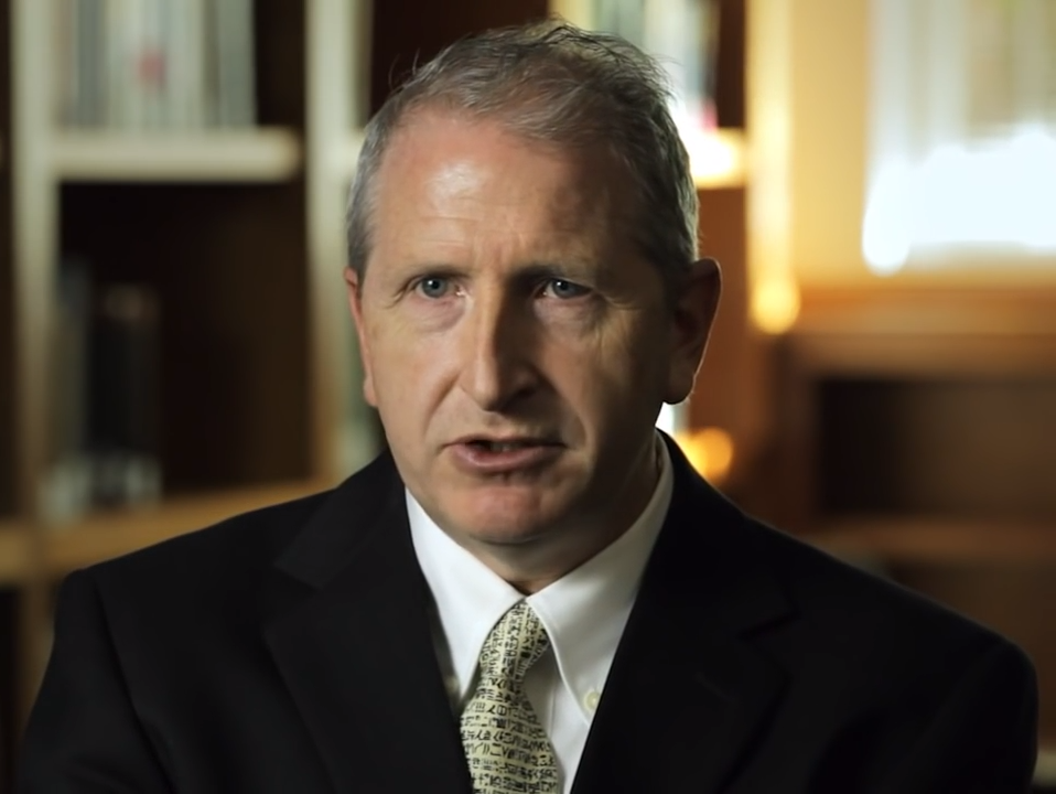 John Gee in the 2016 film By Study and Also By Faith.